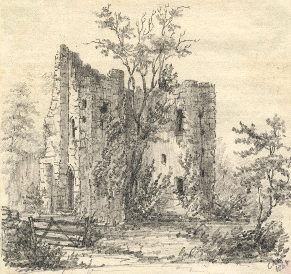 Gidleigh Castle in Devon, 1868 drawing by C.A.Collis. Sold 2018 by Somerset and Wood Fine Art Ltd, 117 The Midlands, Holt, BA14 6RJ